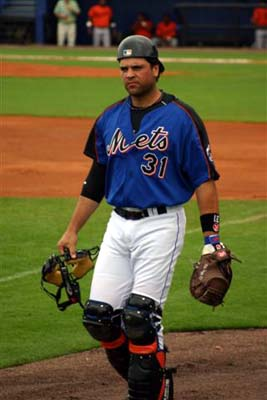 Photo of Mike Piazza taken from stands during a spring training game in 2004